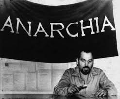 Giuseppe Pinelli at Anarchist Circle Ponte della Ghisolfa, Milan